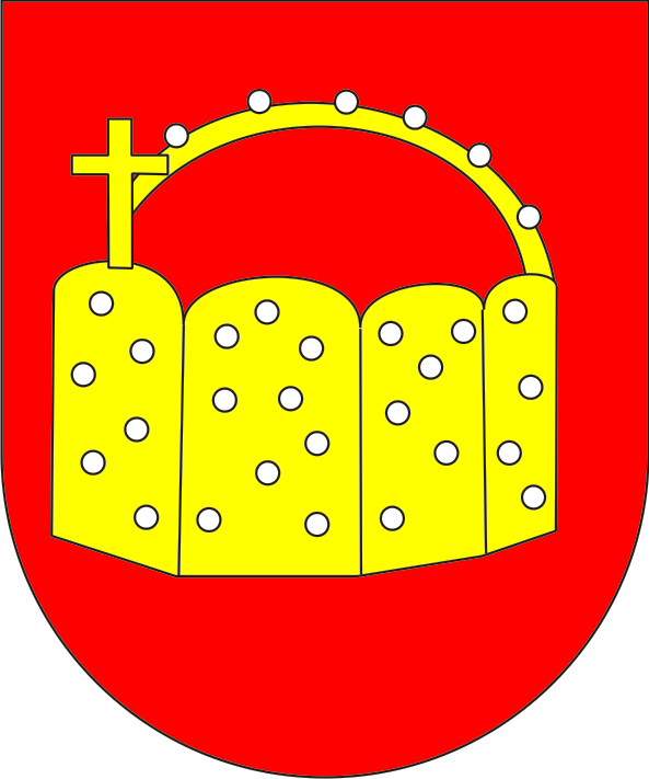 Coat of arms of the Arch-treasurer of the Holy Roman Empire